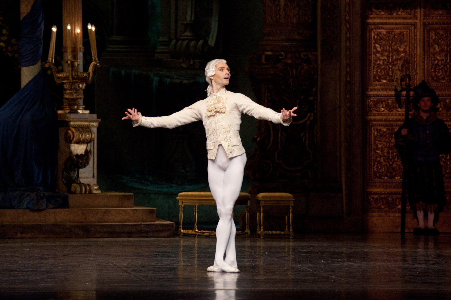 Vladimir Yaroshenko (Prince Désiré), "The Sleeping Beauty" by Yuryi Grigorovich after Marius Petipa, Polish National Ballet